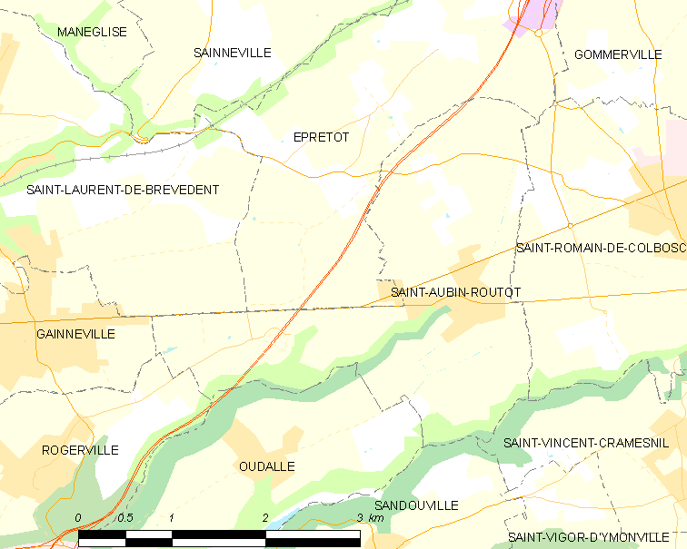 Map of French municipality Saint-Aubin-Routot